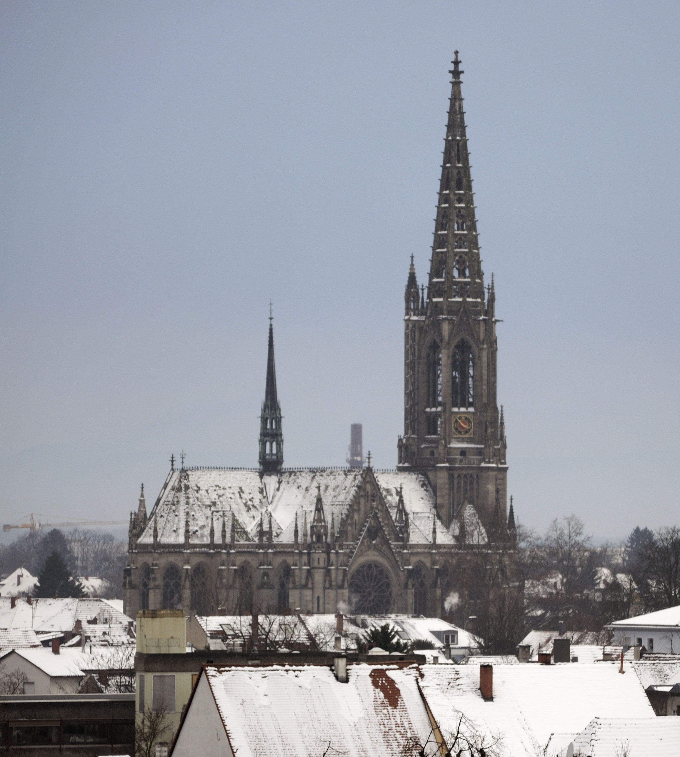 Picture taken in Speyer. Gedächtniskirche der Protestation.